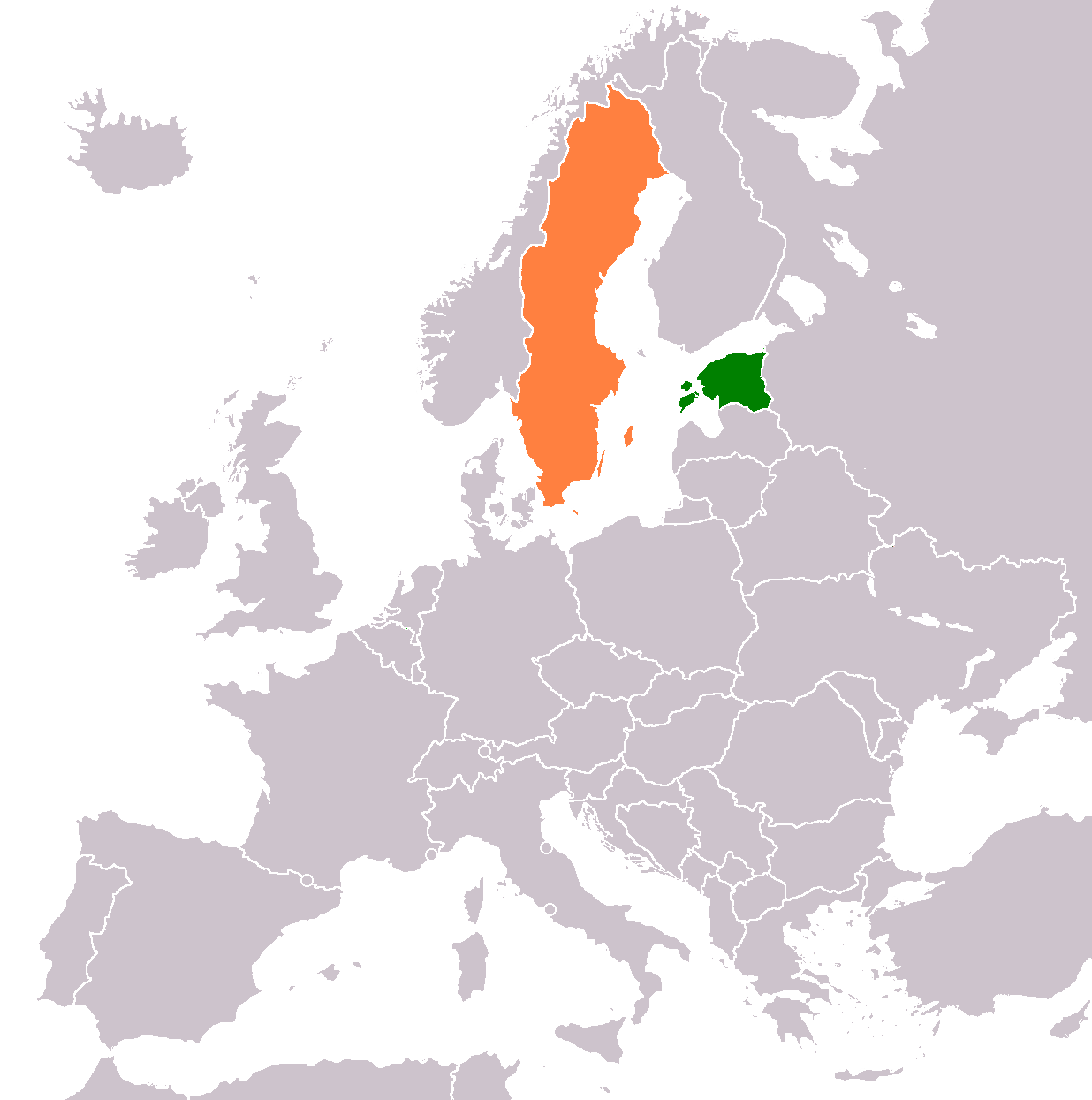 Licence free map I made out of a licence free blank map.